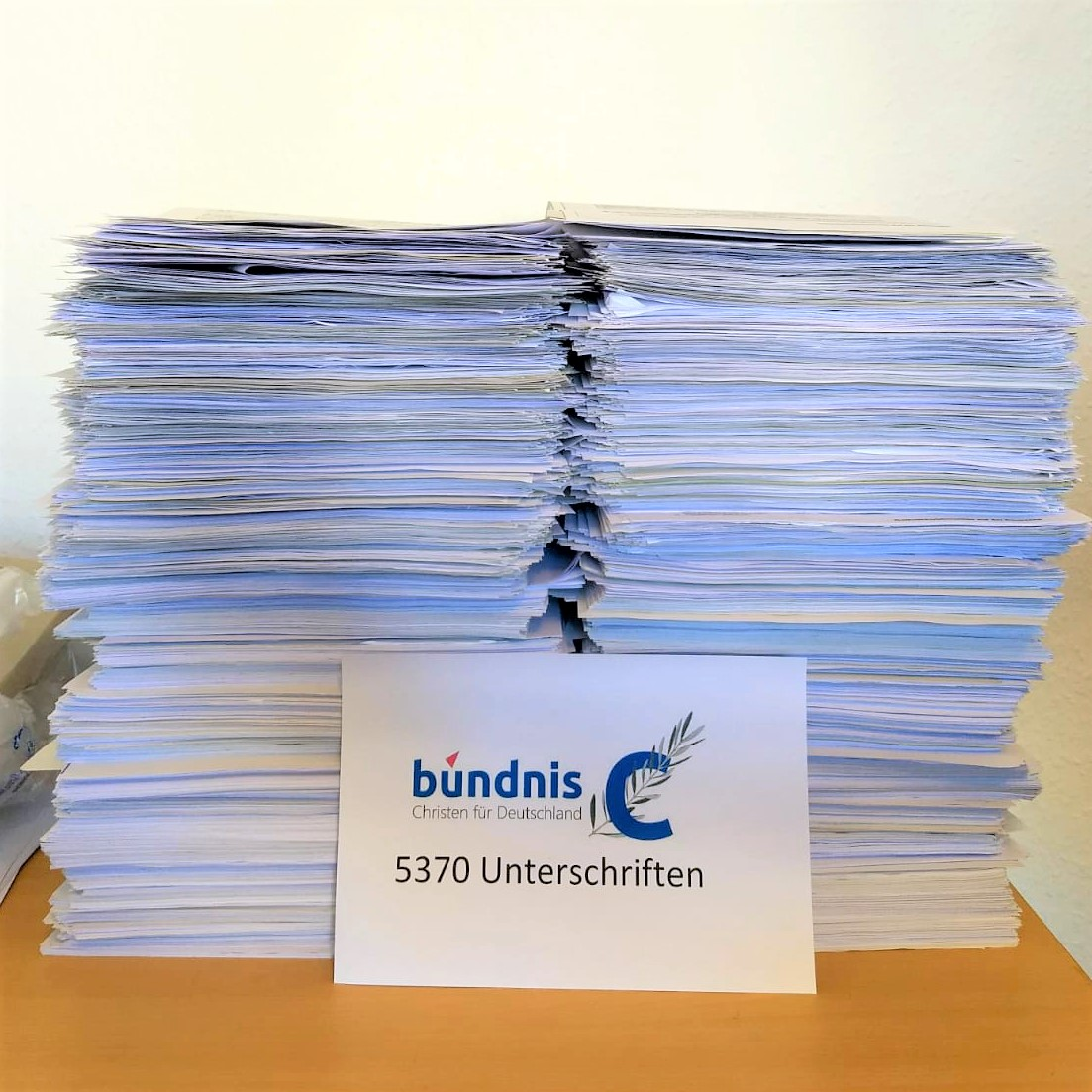 The picture shows 5370 supporter signatures for the elections of the European Parliament.